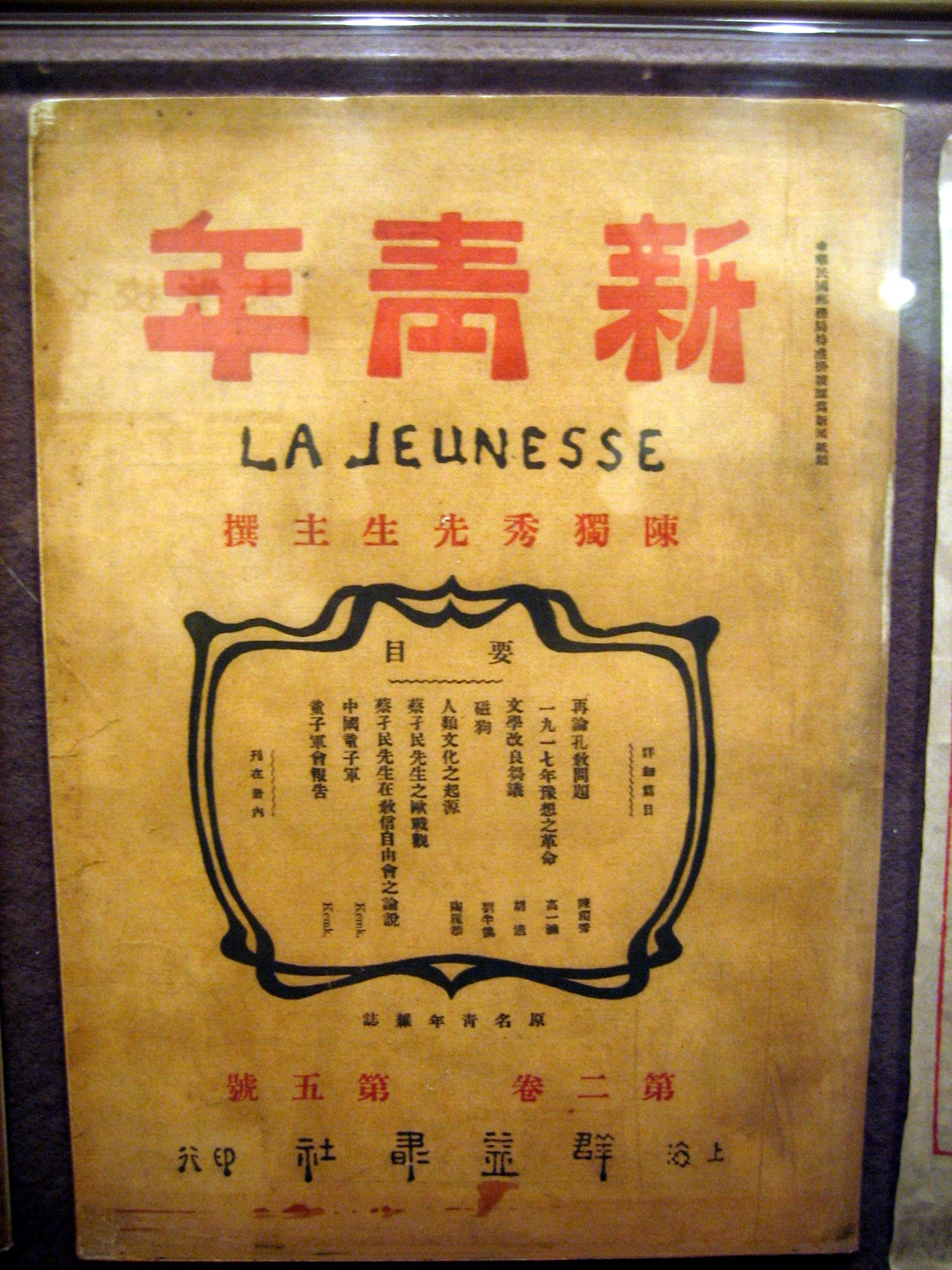 La Jeunesse(新青年), photoed by Mountain at Cai Yuanpei Memorial in Shanghai.